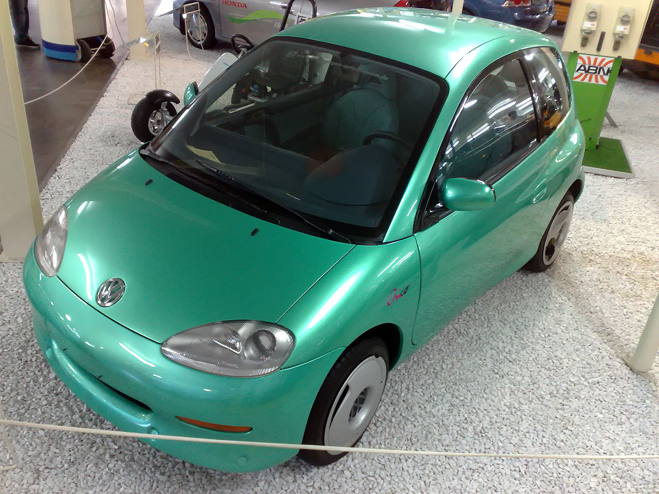 VW Chico at Auto- und Technikmuseum Sinsheim